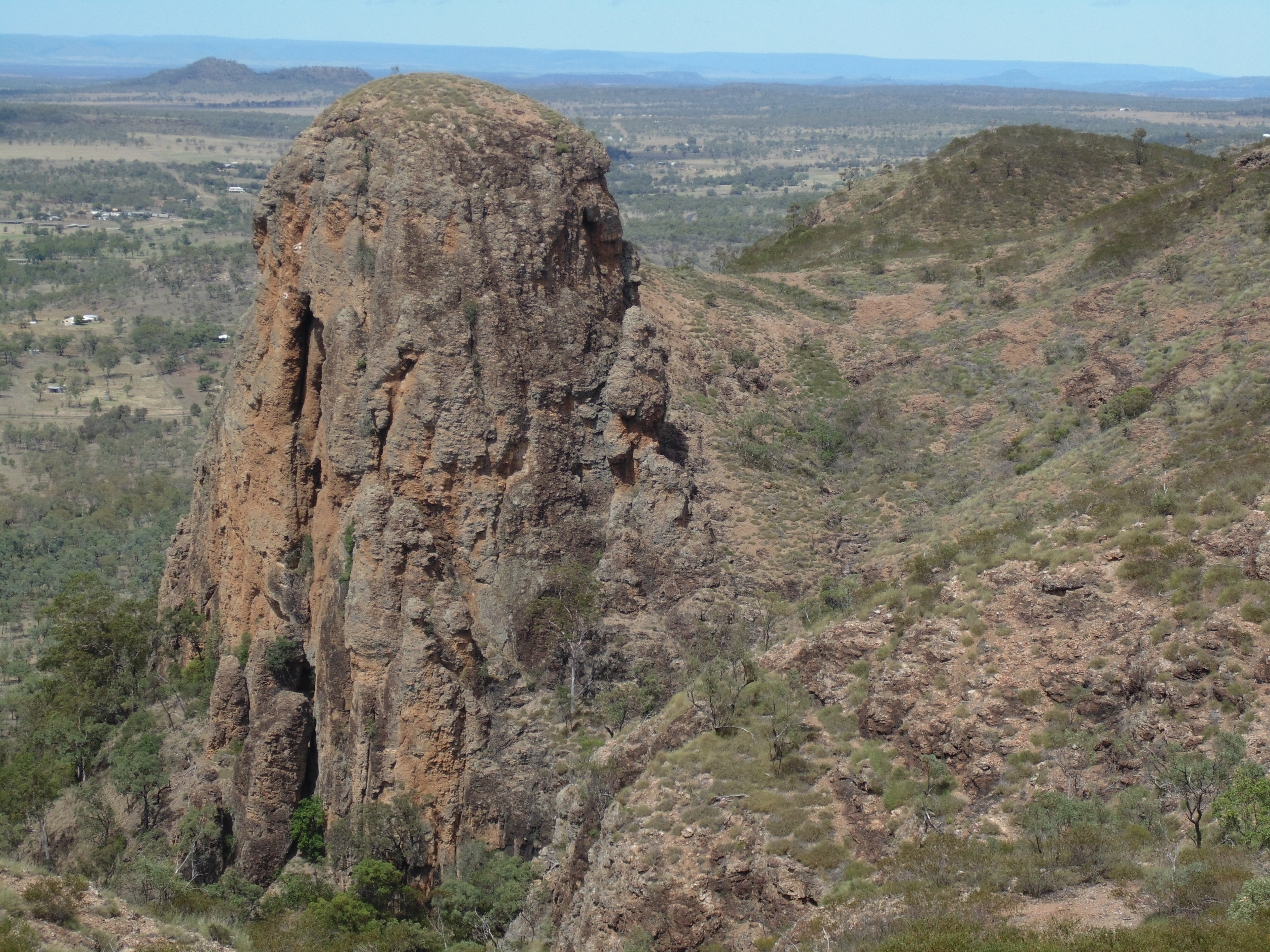 Minerva Hills Natl Park Qld Australia - The Tower